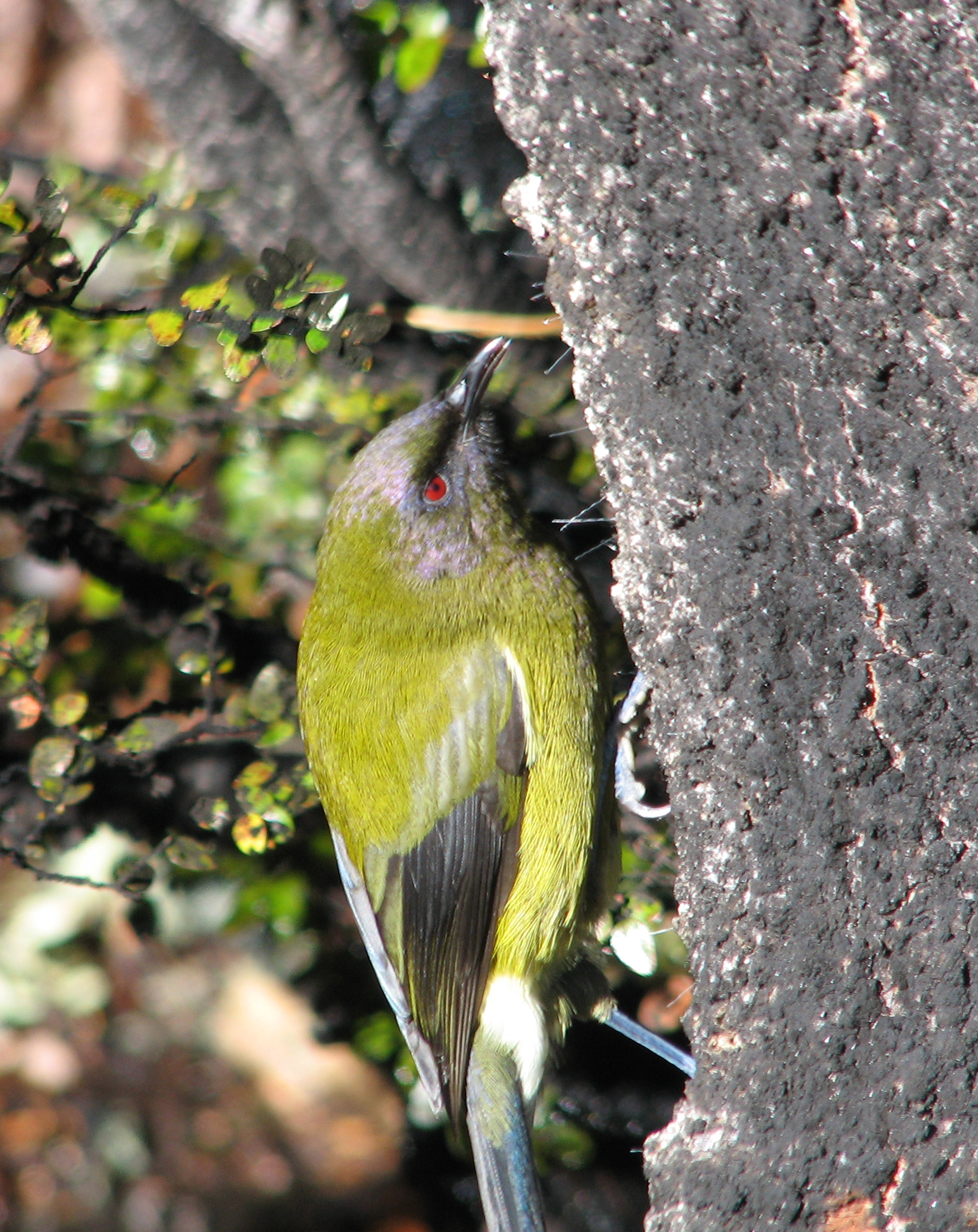 The image is of a New Zealand Bellbird feeding on honeydew on the trunk of a mountain beech tree. It is in the Craigeburn Forest, New Zealand.